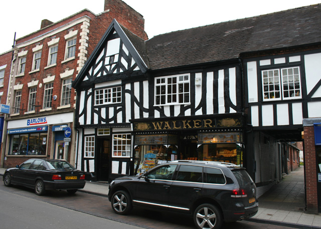 21-23 High Street, Whitchurch Grade-II*-listed half-timbered building, originally a hall, now used as a shop and café, dating in part from the late 15th century. The frame features close studding with S braces on the first floor and diagonal bracing on the gable. The wooden shop front ('Walker'; centre) dates from the 19th century and is a particularly complete example. The attic contains coops for the rearing of birds for cock fighting. On the left is 25 High Street, a grade-II-listed red-brick building dating from 1753. For more information